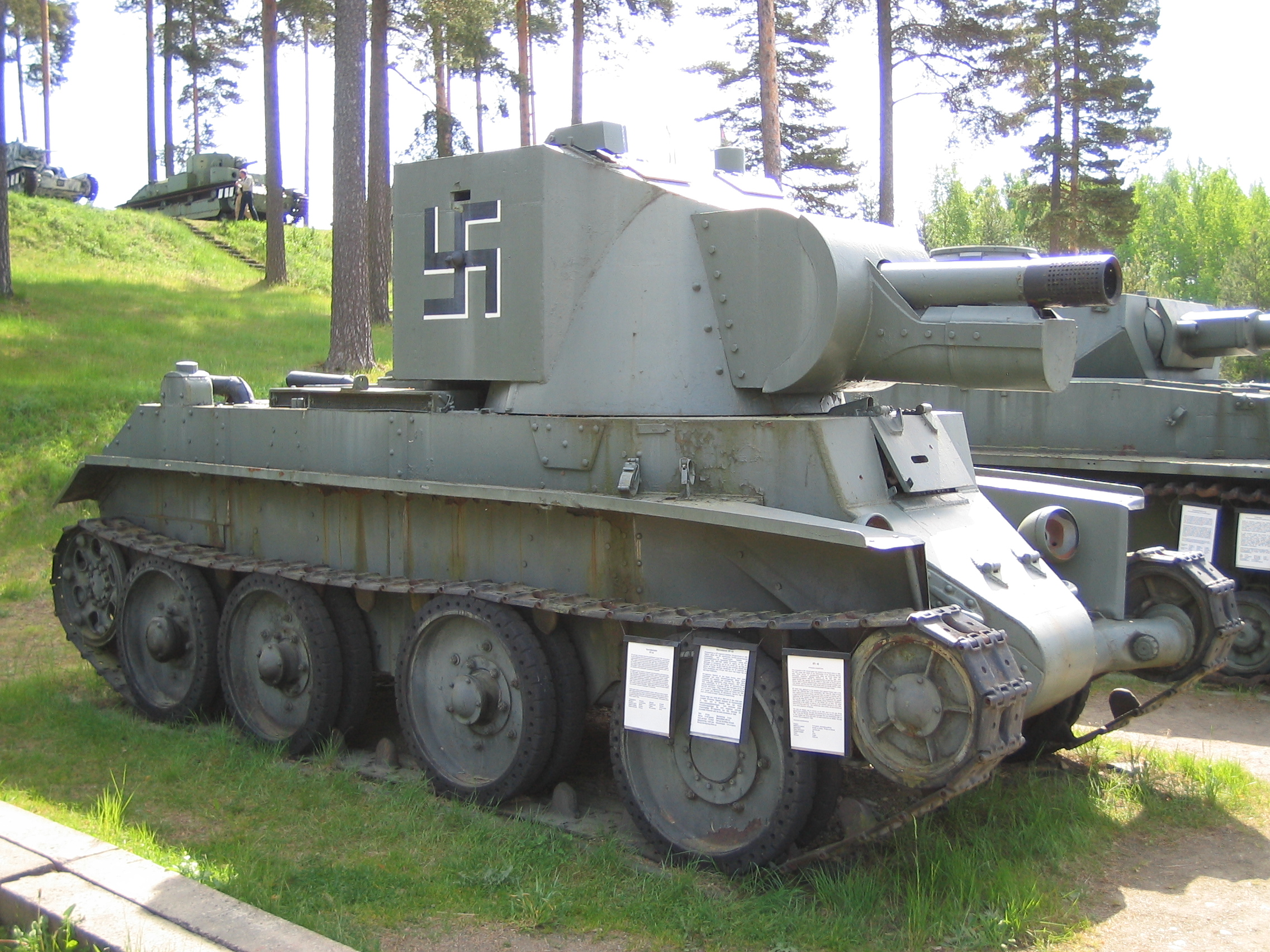 Assault gun BT-42, displayed in Parola tank museum.